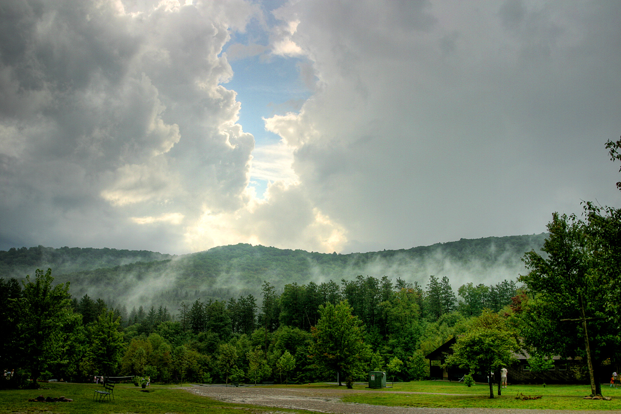 Mist on Mt. Tuscarora in Allegany State Park as seen from Camp Turner in September 2007.